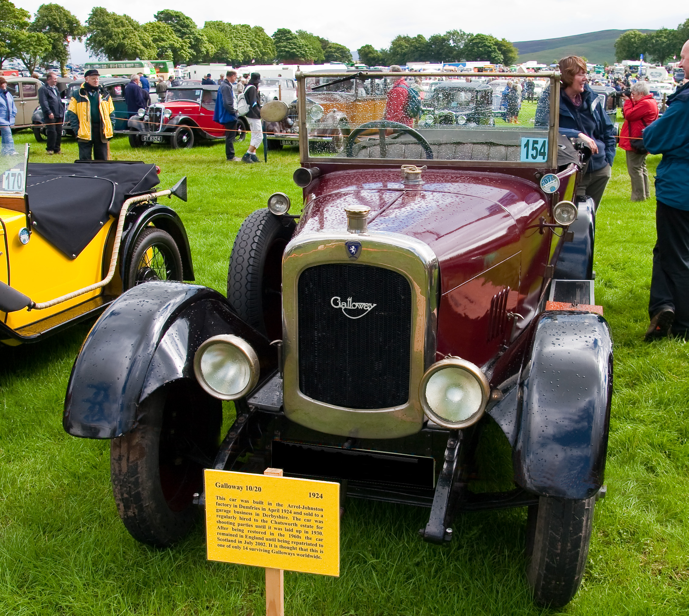 Photograph of a fine and rare 1924 Galloway 10/20 at the Biggar Vintage Rally